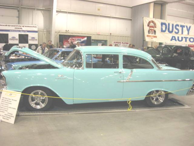 1957 Chevrolet One-Fifty Series 1500, Model 1502 2-door sedan, at local car show